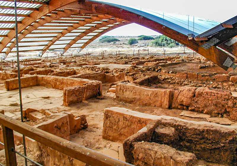 Quartier Mu in Malia, Crete. Photograph taken by Marsyas 13:03, 28 October 2005 (UTC)